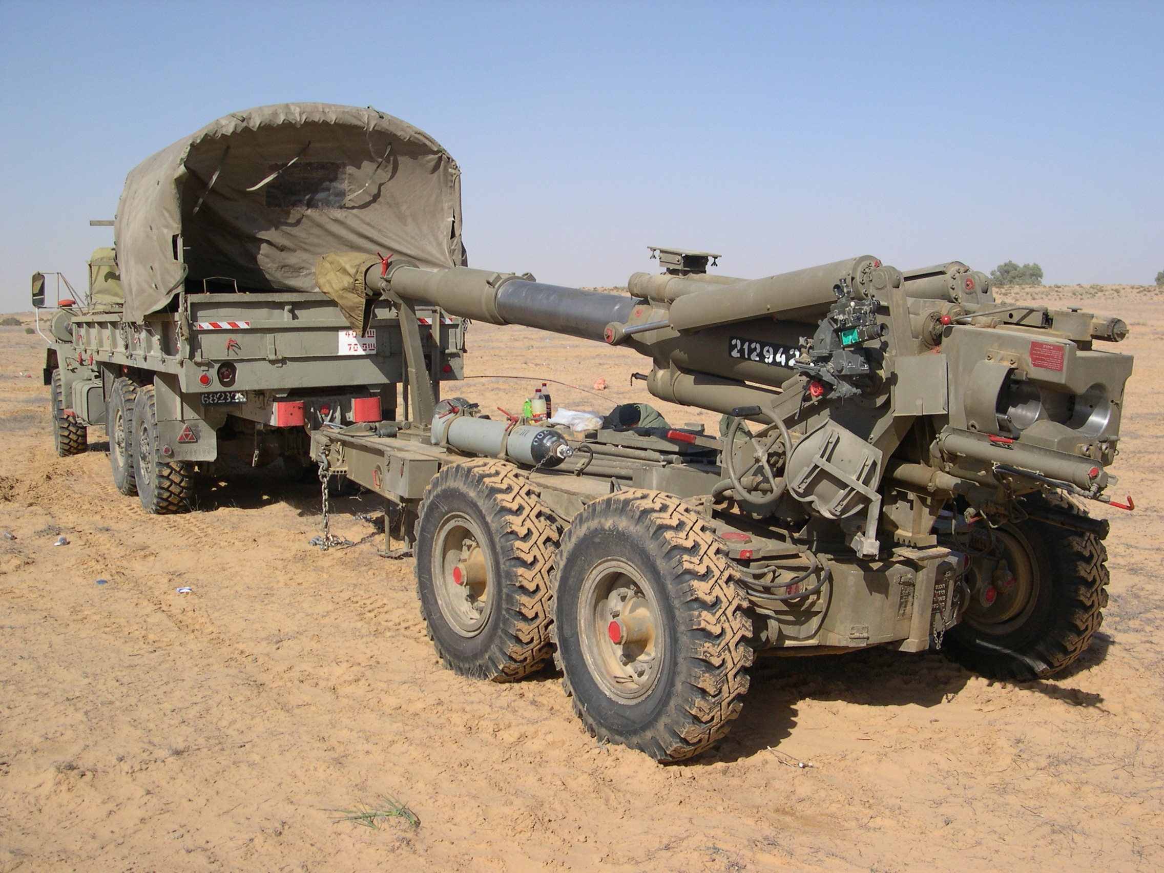 M-71-Soltam cannon deployed in IDF excercise